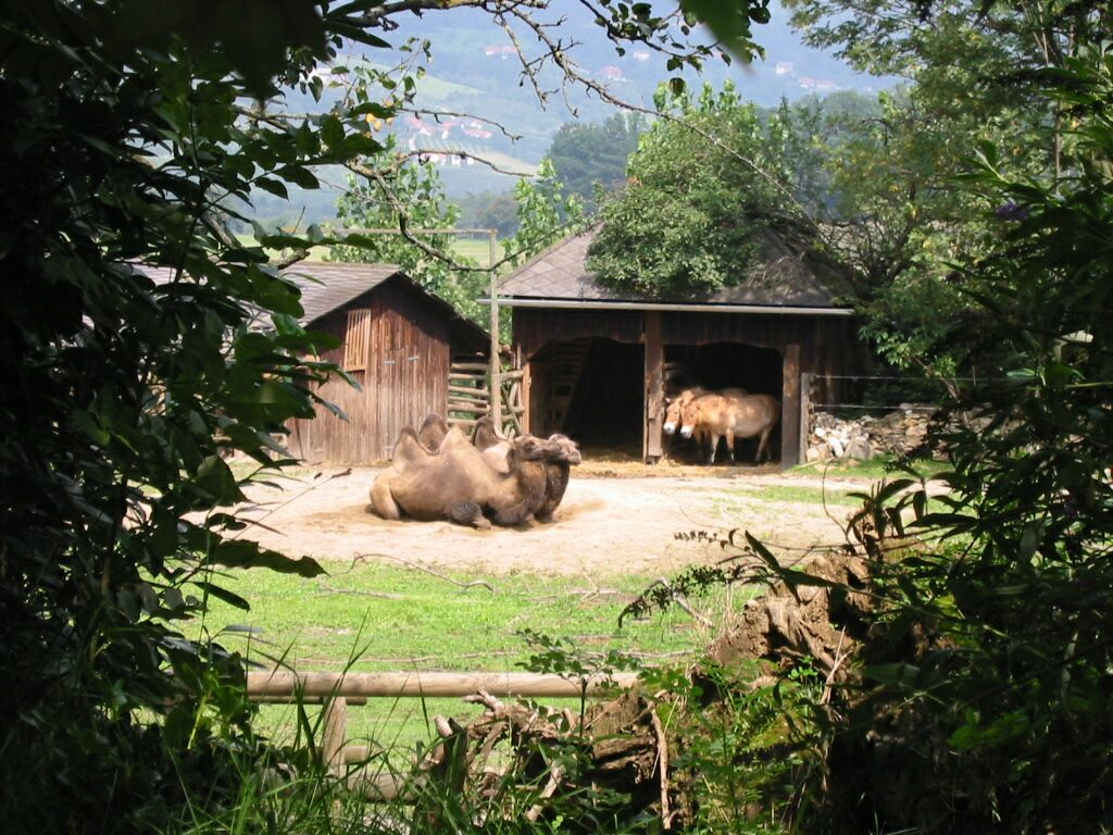 Animals in the Zoo of Herbersdorf, Austria